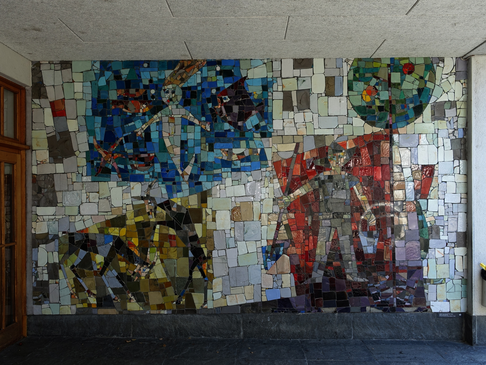 Mosaik, Kind und Natur, 1962, Schulhaus Erlen, Riehen, Schweiz. Von Ernst Baumann (1909-1992) Maler, Künstler